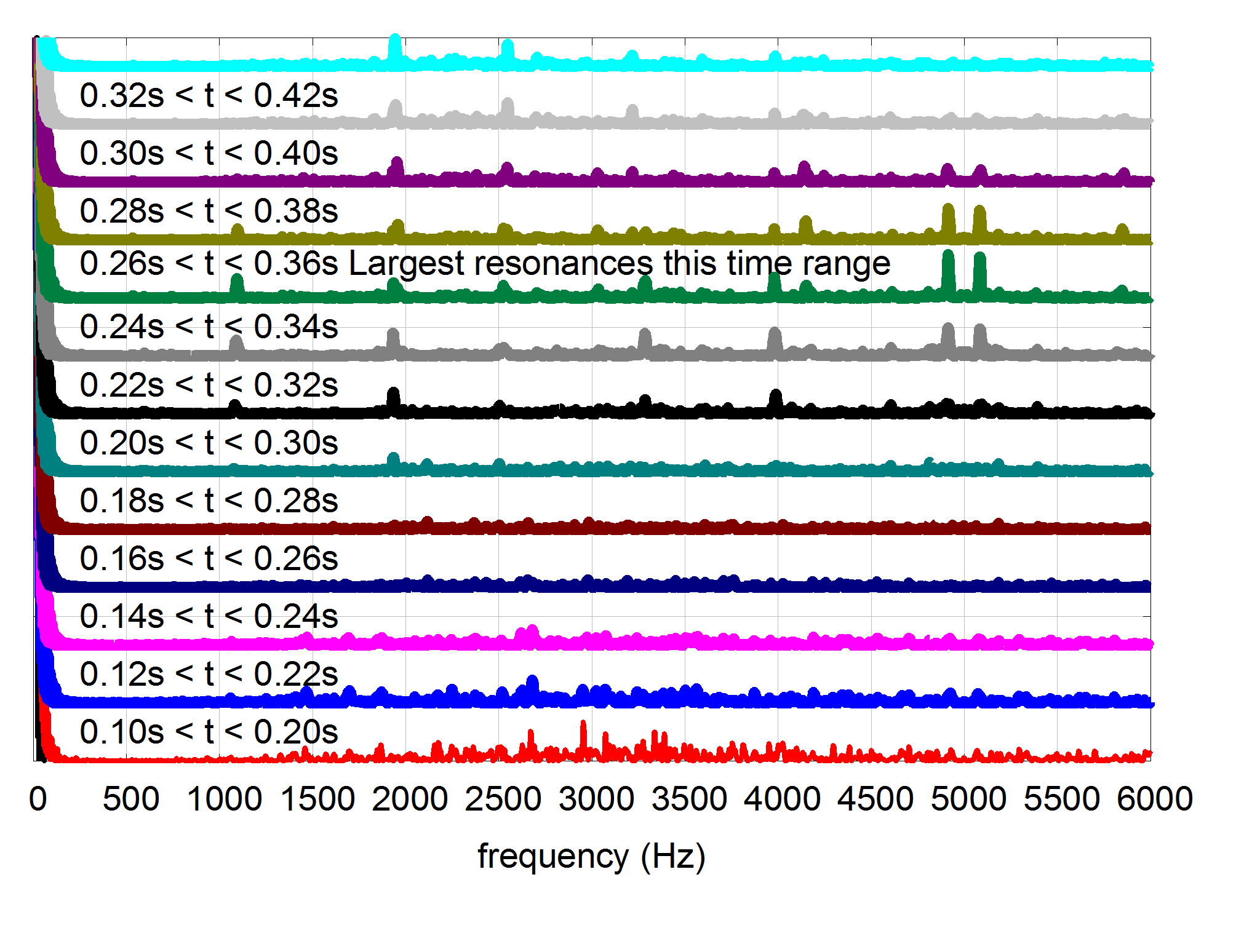 Example of short time Fourier transforms used to determine time of impact from audio signal. STFS computed with